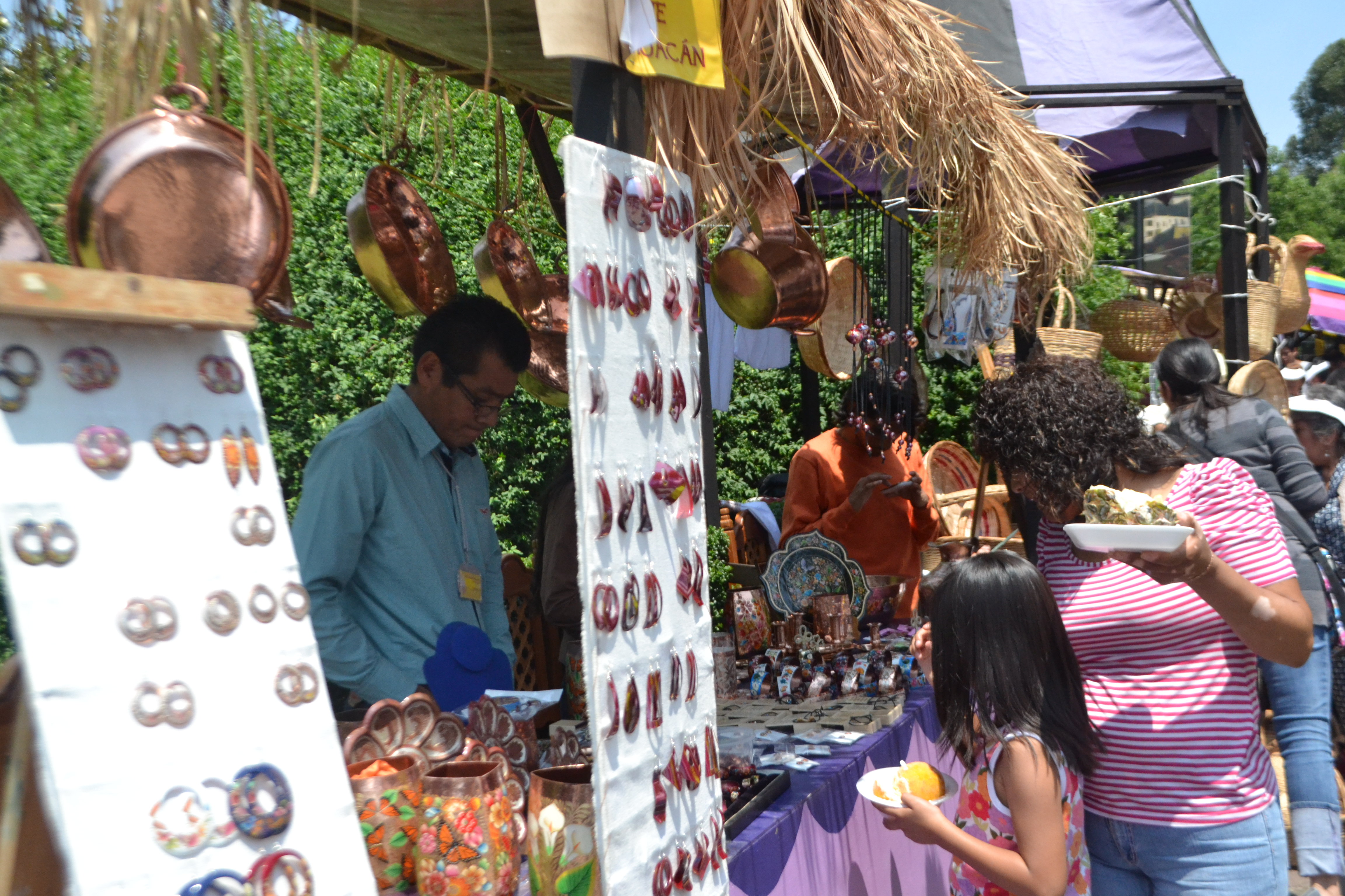 This is a sale of crafts in the "Carnaval de las tradiciones"